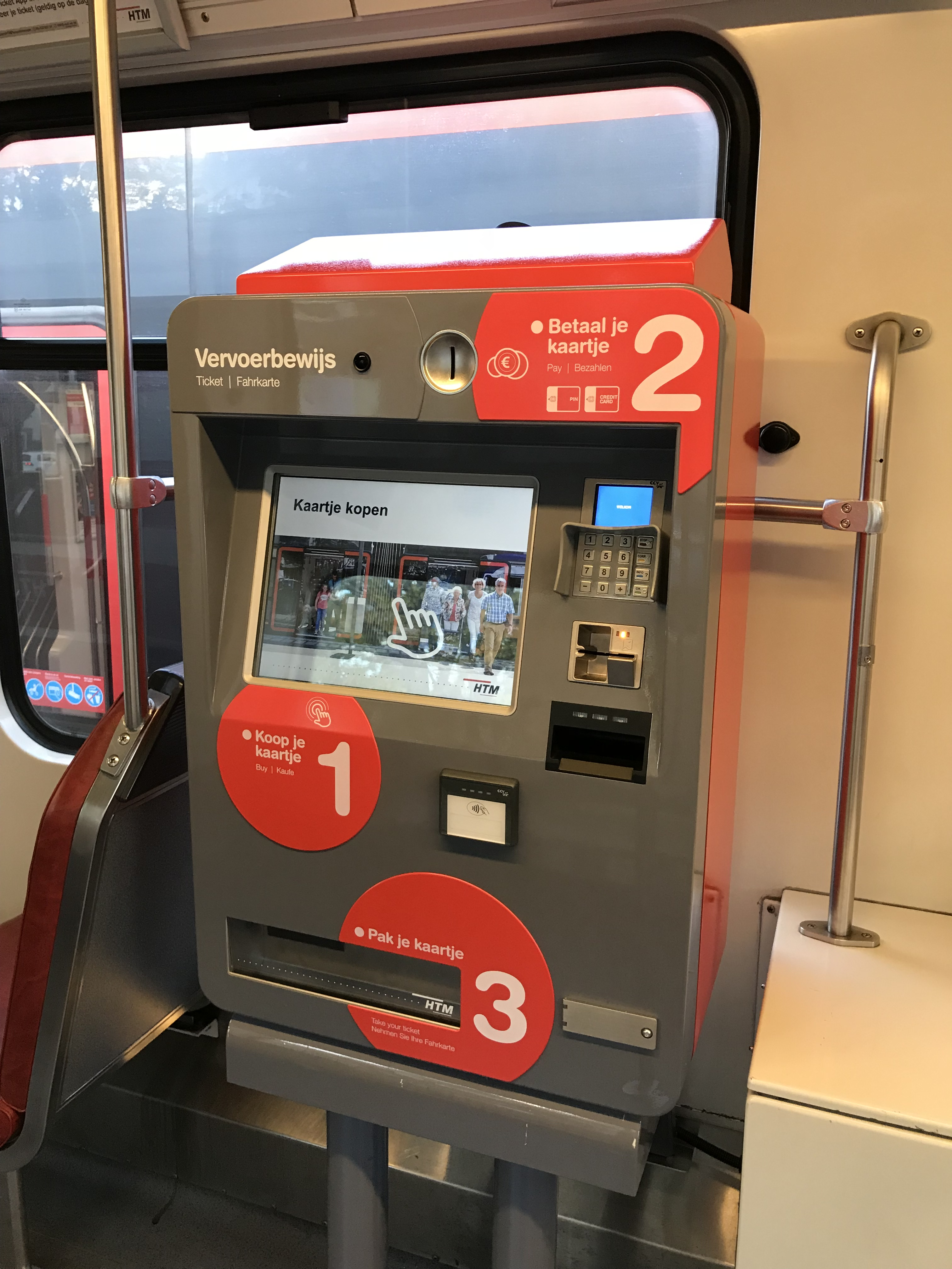 Ticket machine in the GTL-trams. Placed in 2018. This ticket machine find in GTL 3113 halfway in the tram. Location: tram line 12.